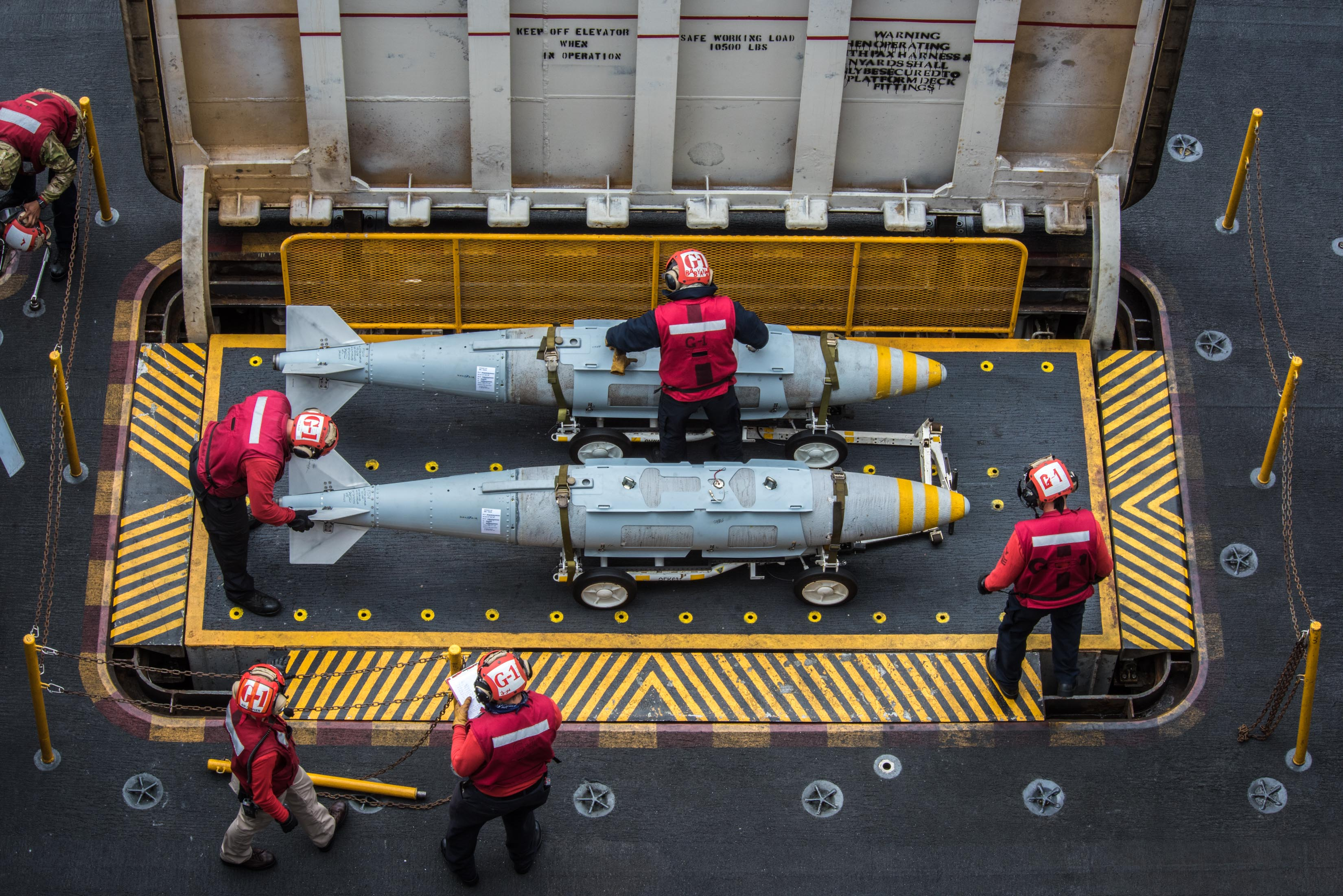 PACIFIC OCEAN (Aug. 29, 2017) Sailors handle ordnance on the flight deck of the aircraft carrier USS Theodore Roosevelt (CVN 71). Theodore Roosevelt is underway conducting a composite training unit exercise (COMPTUEX) with its carrier strike group in preparation for an upcoming deployment. COMPTUEX tests a carrier strike group's mission readiness and ability to perform as an integrated unit through simulated real-world scenarios. (U.S. Navy photo by Mass Communication Specialist 3rd Class Alex Perlman/Released)170829-N-GP724-068 Join the conversation: navylive.dodlive.mil